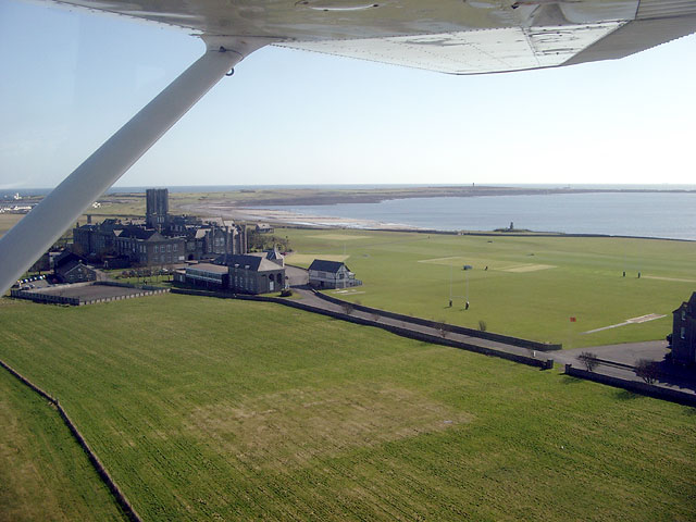 King William's College. Private boarding school, near Isle of Man Airport.